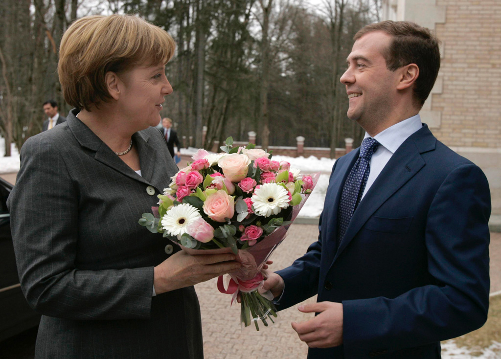 “German Chancellor Angela Merkel pays a working visit to Russia”. March 8, 2008. German Chancellor Angela Merkel and President-elect Dmitry Medvedev meeting at Maiensdorf Castle in the Moscow Region.